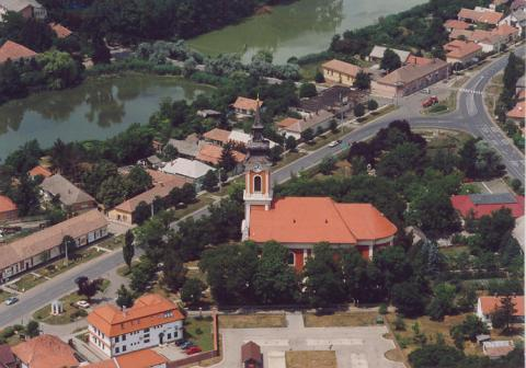 Endrőd in Gyomaendrőd, Hungary, aerialphotography, Szent Imre Katolikus Templom